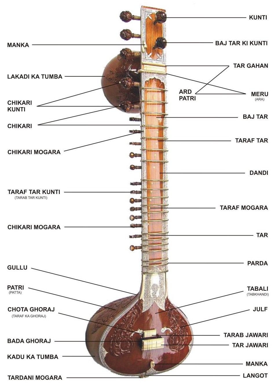 Parts of the sitar shown in original language